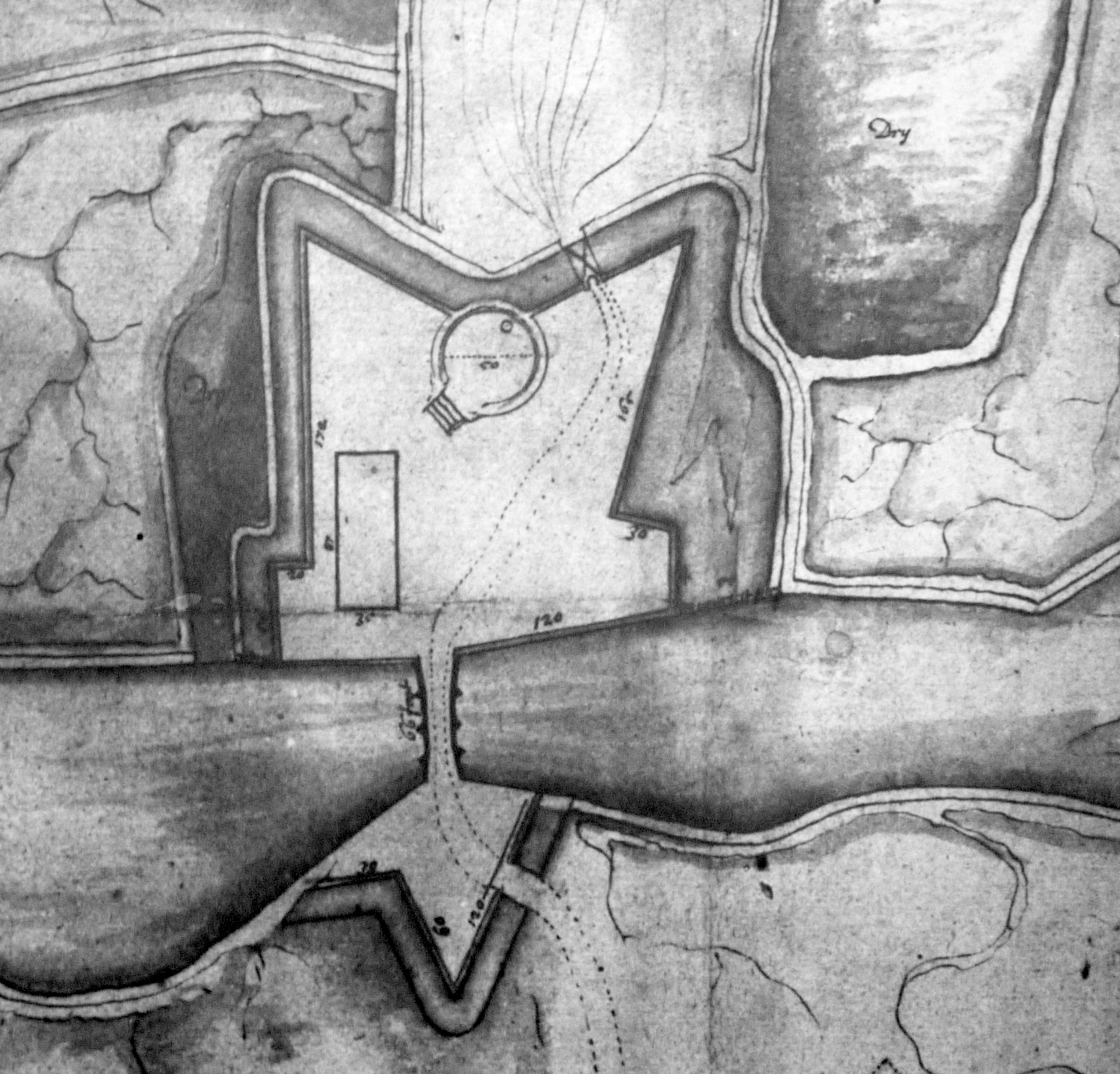 Plan of the fort protecting the portsbridge creek crossing in 1660